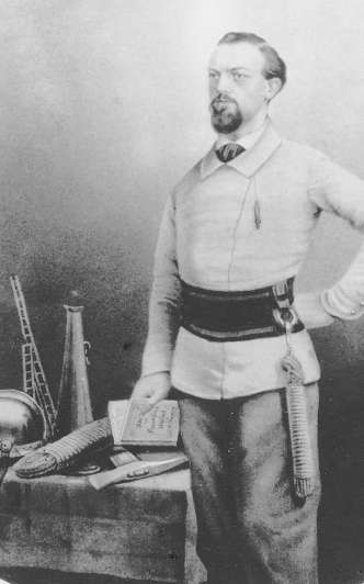 Conrad Dietrich Magirus, Founder of the german firefighter assosiation